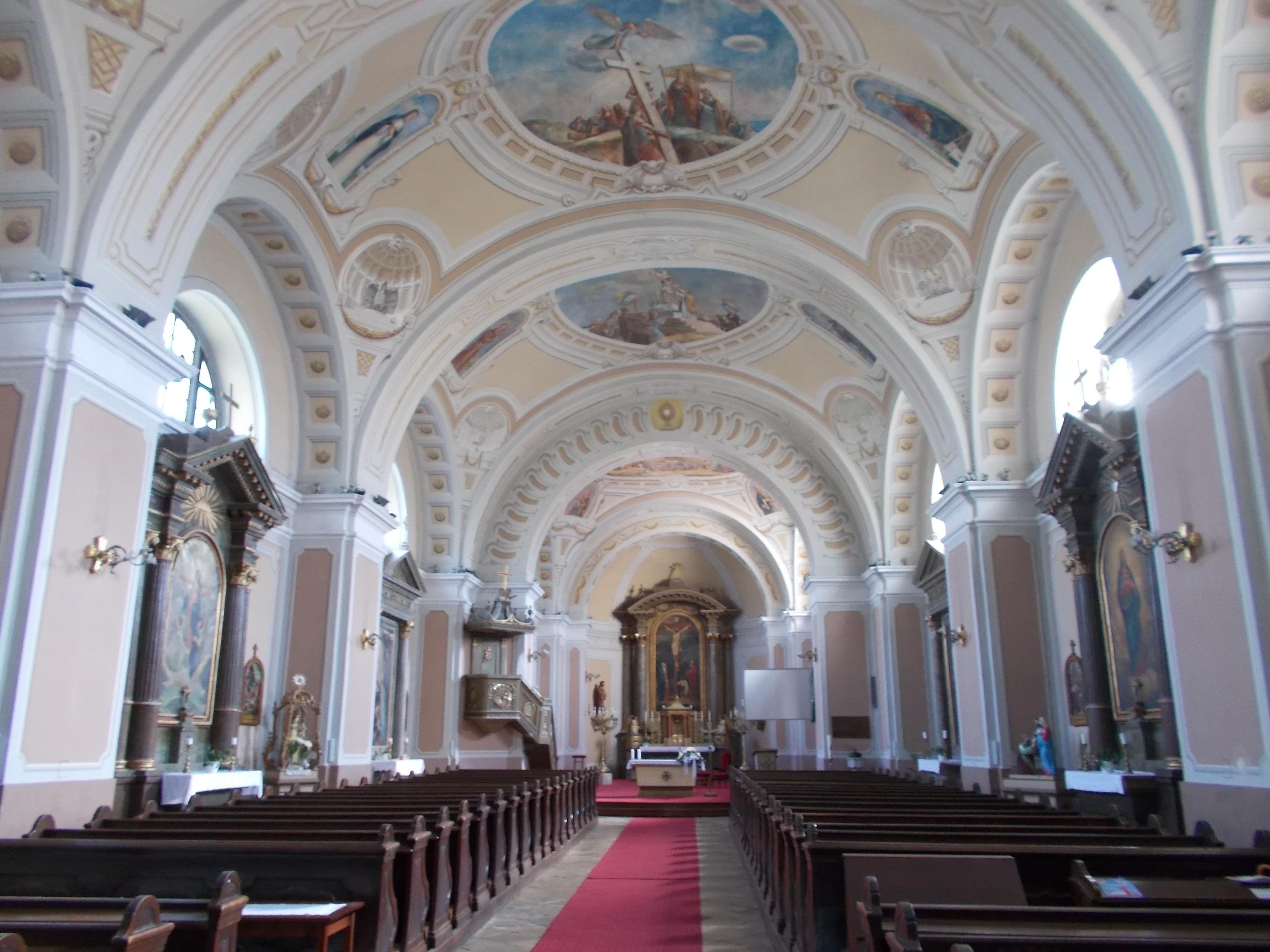 Roman Catholic parish church. Built by Ferenc Homályosi in 1822-1827. Ionic capitals on pilasters. Palladian windows. Wall painting from 18th century. Two angel satue on the altar made by Lőrinc Dunaiszky. - Kossuth Sq., Cegléd, Pest County, Hungary